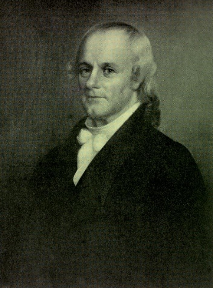 Benjamin Ellicott, New York Congressman